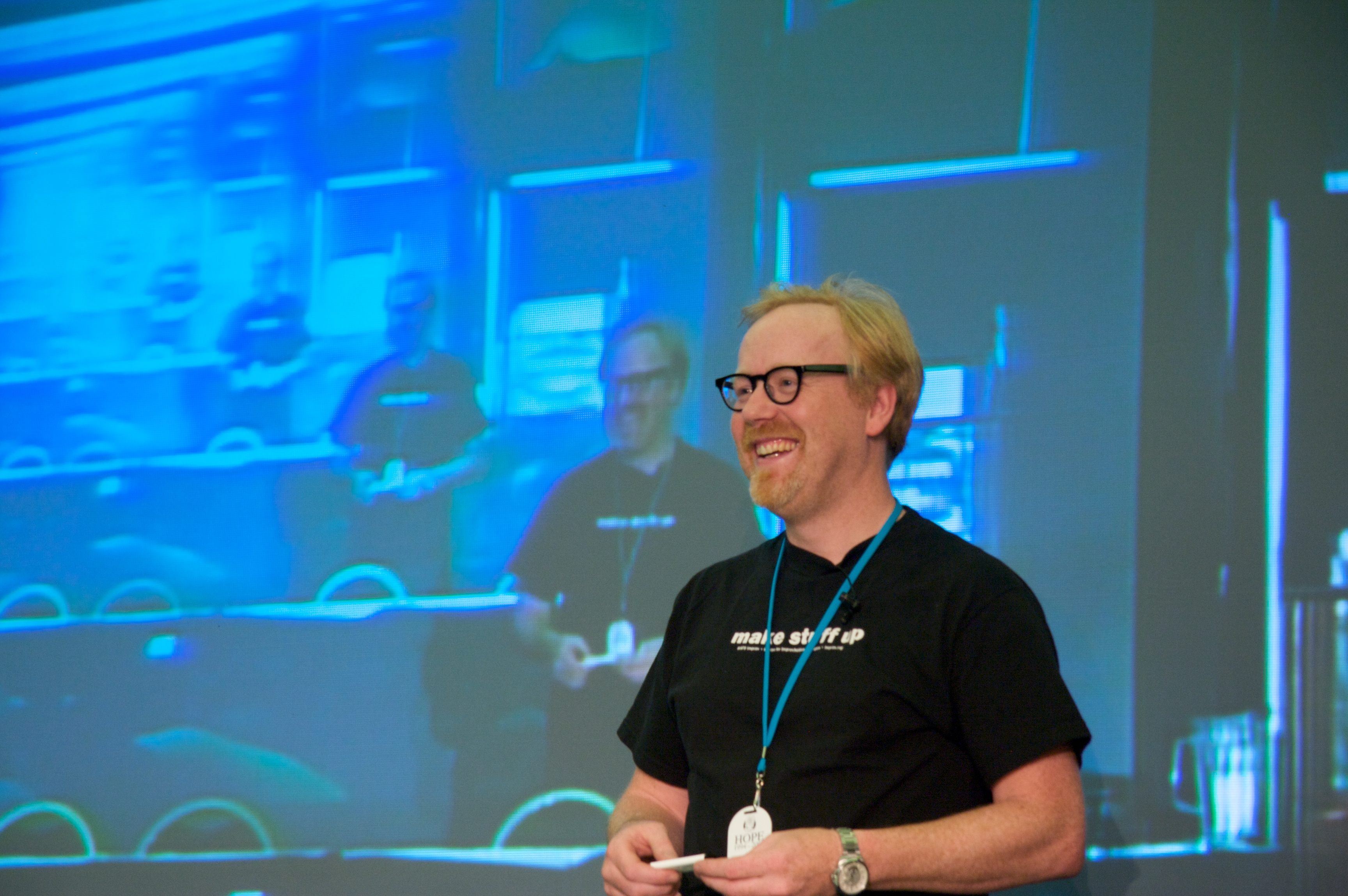 Mythbuster Adam Savage presents at The Last Hope July 20th, 2008.